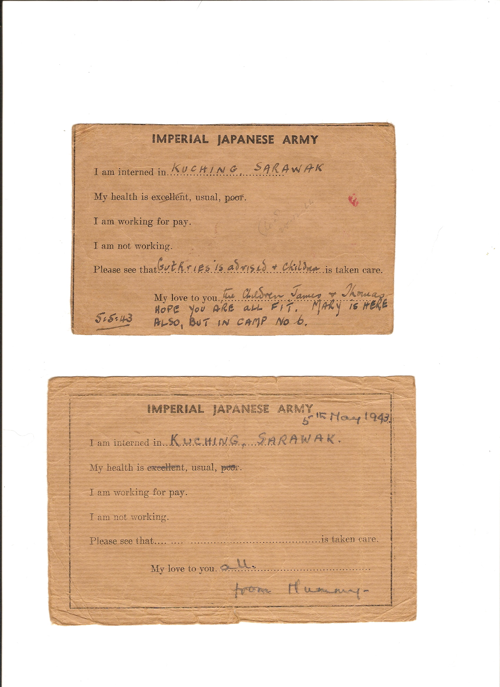 Postcards written home to England by a civilian internee couple in Batu Lintang camp, Kuching, Sarawak on 5 May 1943. The couple were liberated on 11 September 1945.